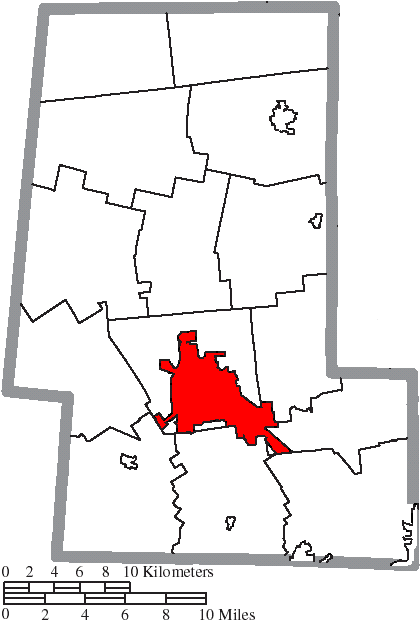 Map of the municipal and township boundaries of Union County, Ohio, United States, as of the 2000 census, with the location of the city of Marysville highlighted. Township borders are shown only in unincorporated areas in order to differentiate incorporated and unincorporated areas more clearly.